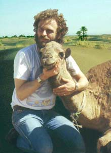 Werner Raffetseder, self-portrait.